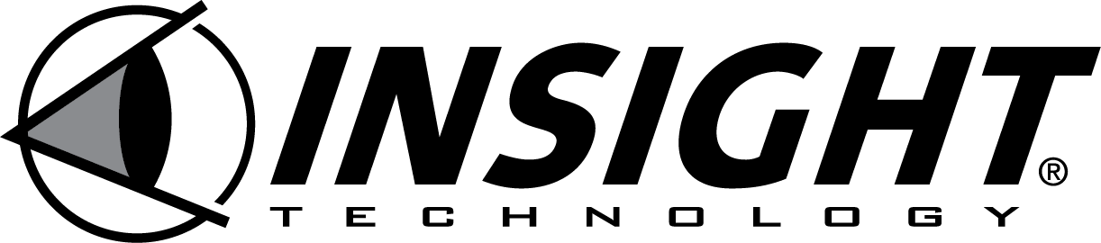 Logo of Insight Technology